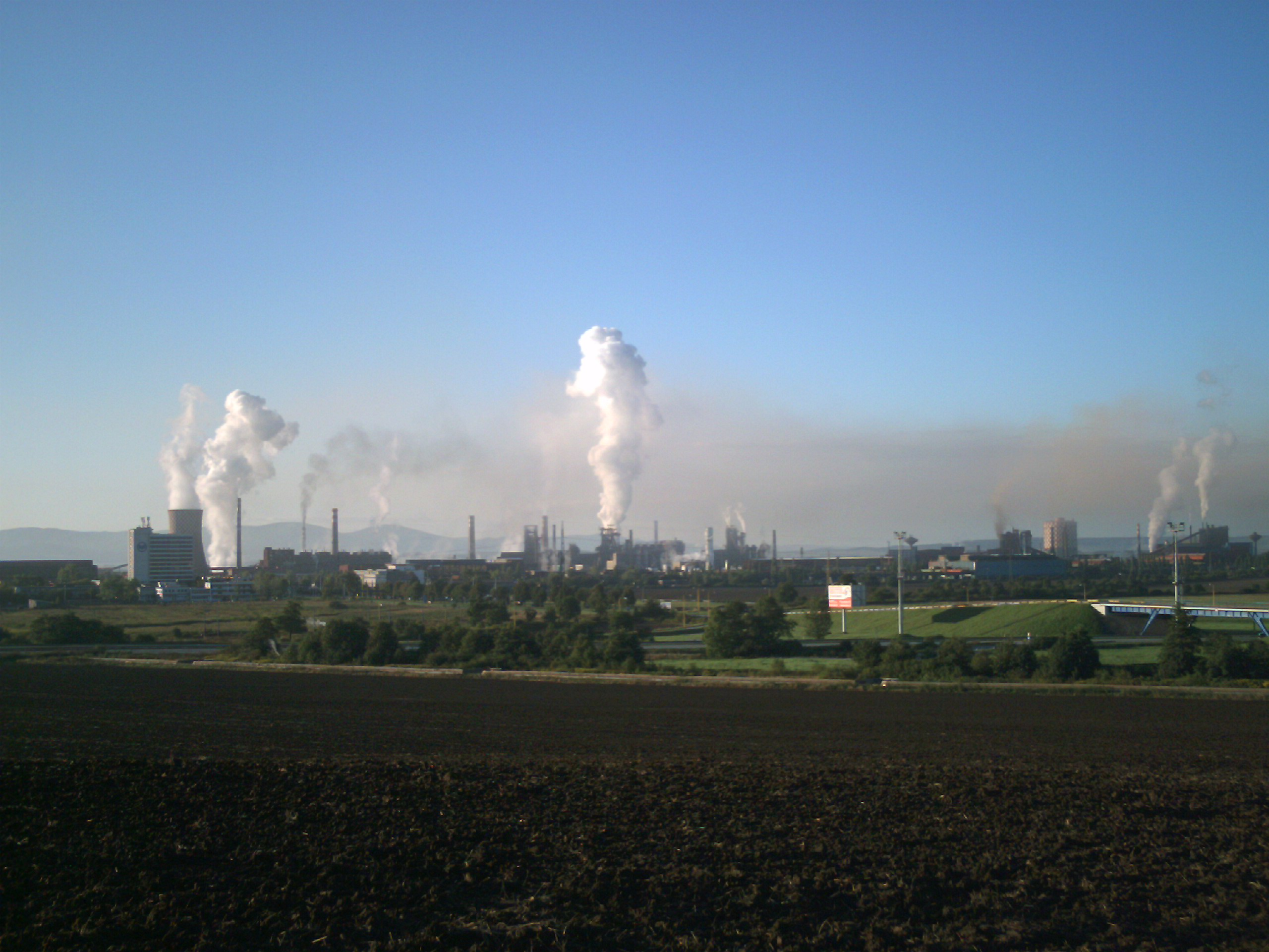 Steel Company U.S. Steel Kosice s.r.o in Slovakia, Kosice